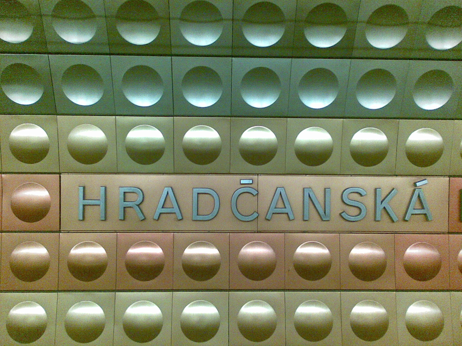 Hradčanská (metro station)